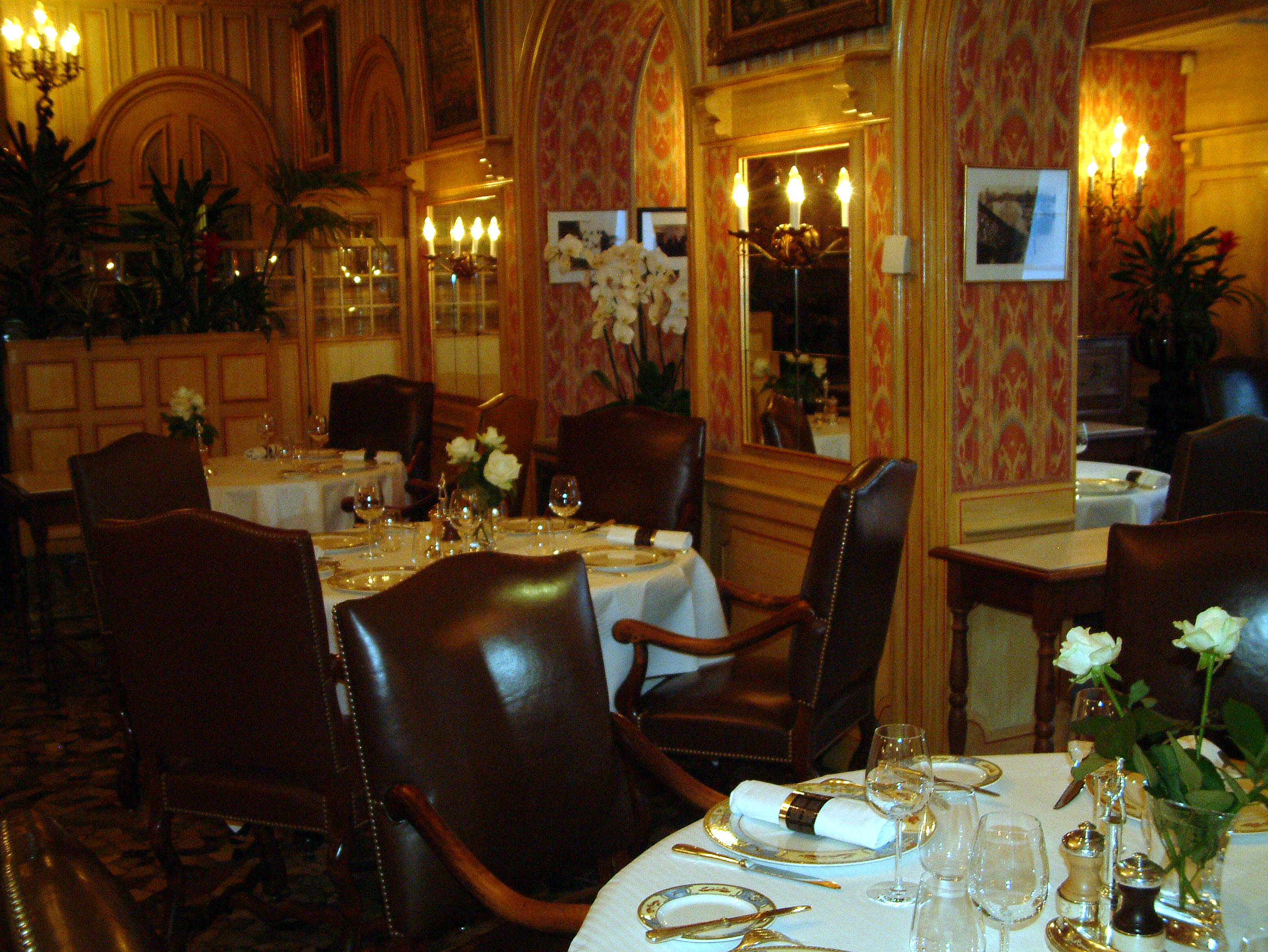 Paul Bocuse Restaurant